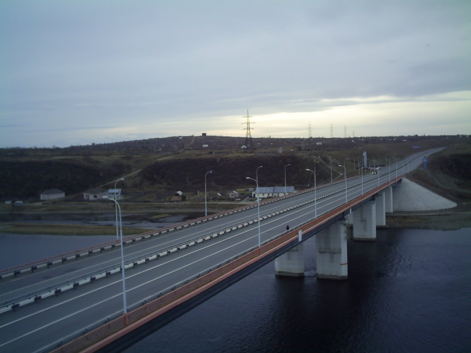 Bratsky bridge over the Yenisei (not related to the city of Bratsk, but to brothers Alexander Lebed and Aleksey Lebed).